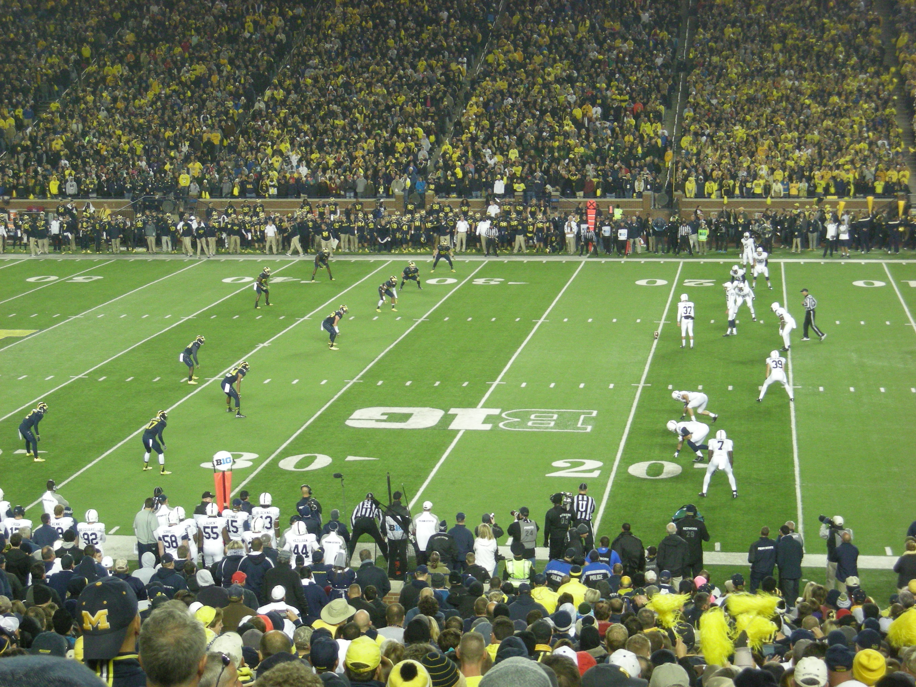 Penn State kicking an onside kick during the Penn State Nittany Lions vs. Michigan Wolverines football game at Michigan Stadium in Ann Arbor, Michigan (United States). Michigan won 18–13.